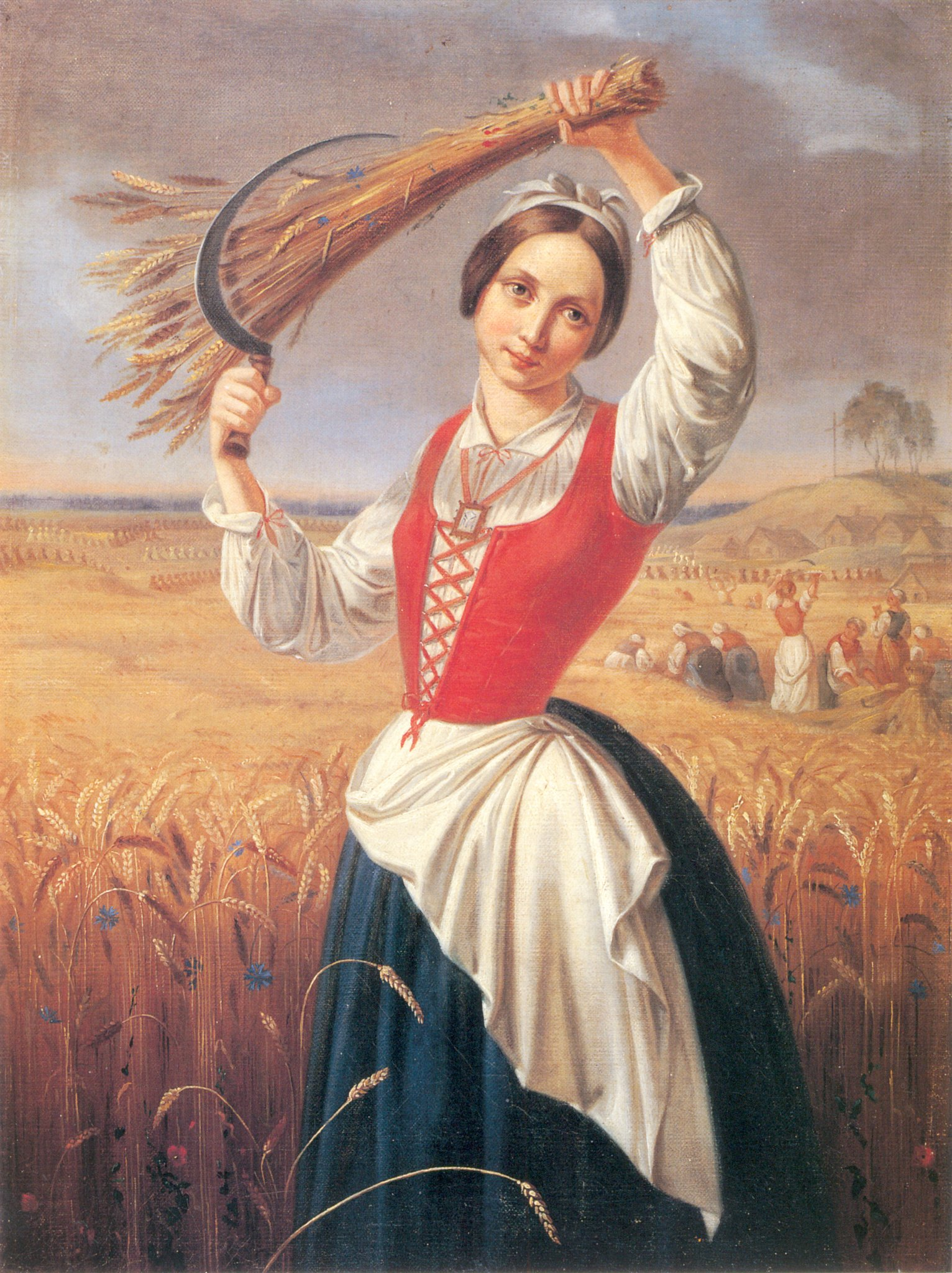 Woman harvester